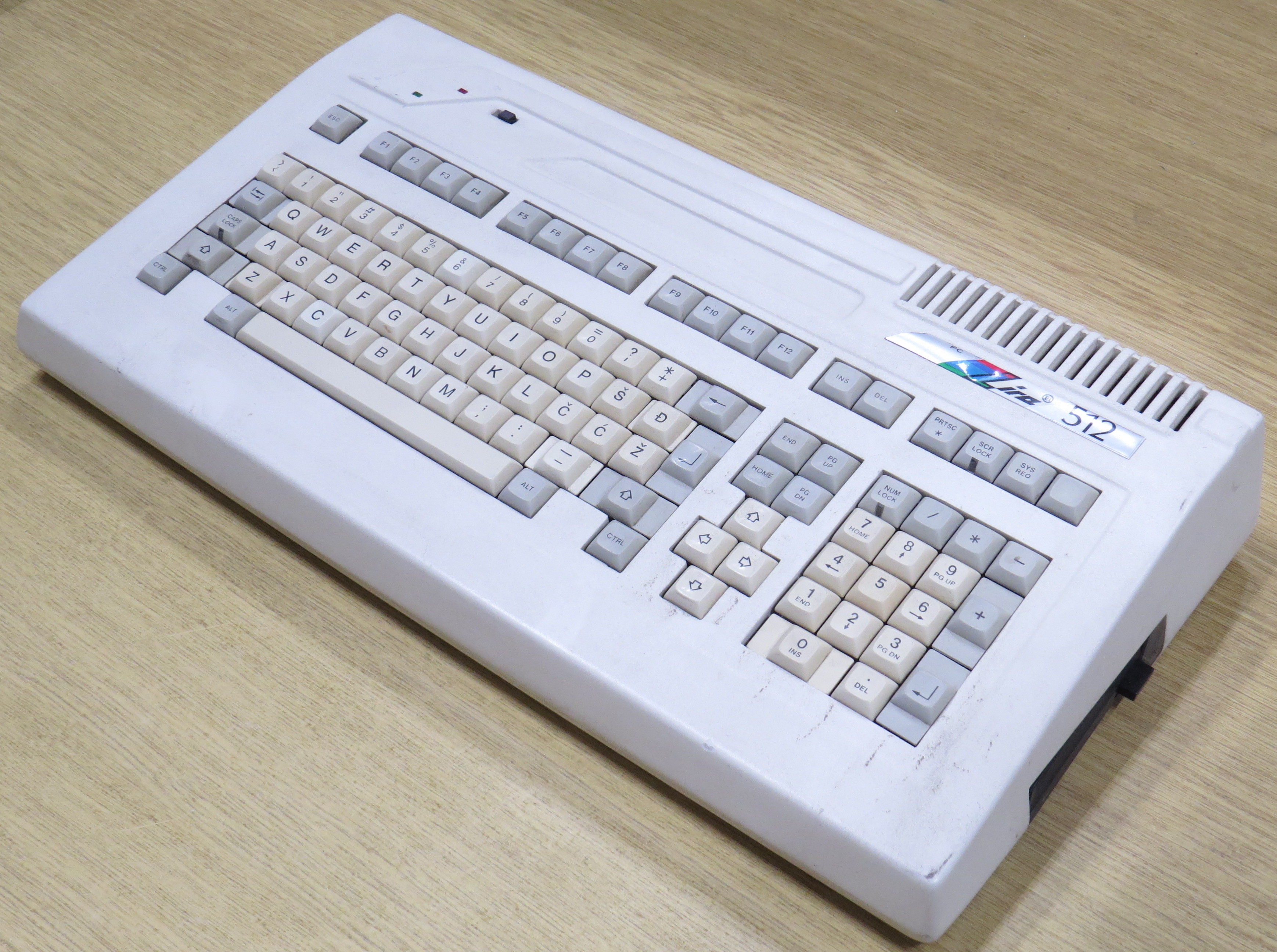 Lira 512, look from side